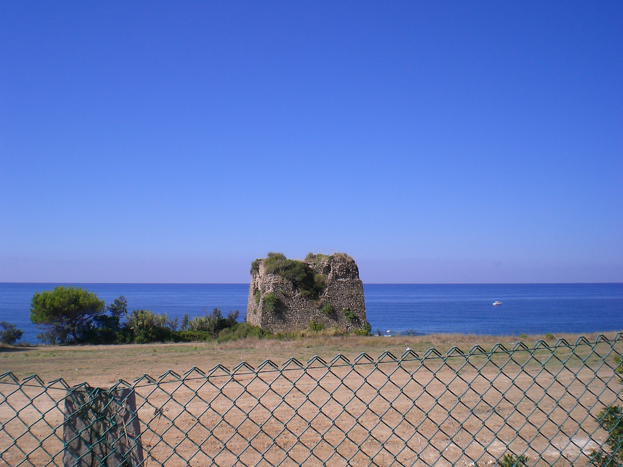 Tower la Punta near Acciaroli and Pioppi